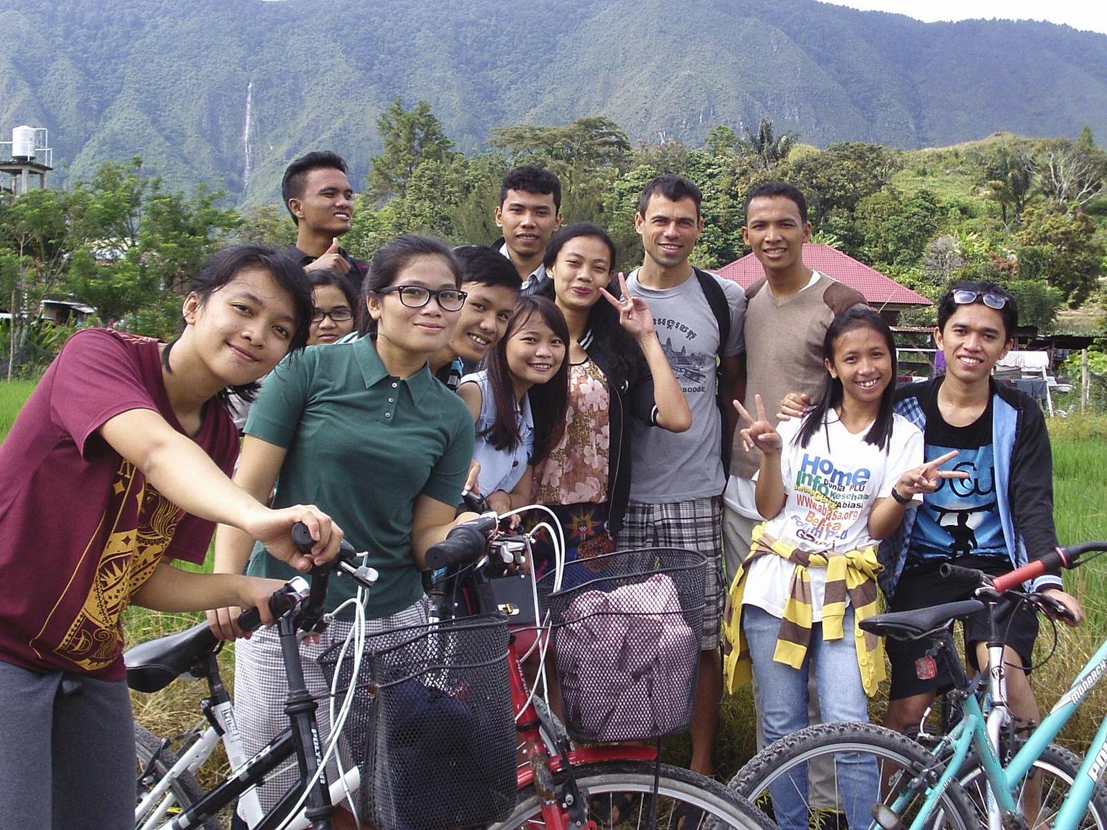 Sumatran youngs, Indonesia